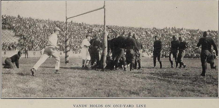 Vanderbilt's goal line stand against Michigan on October 14, 1922, when All-American Harry Kipke was stopped just a foot short of the goal line.